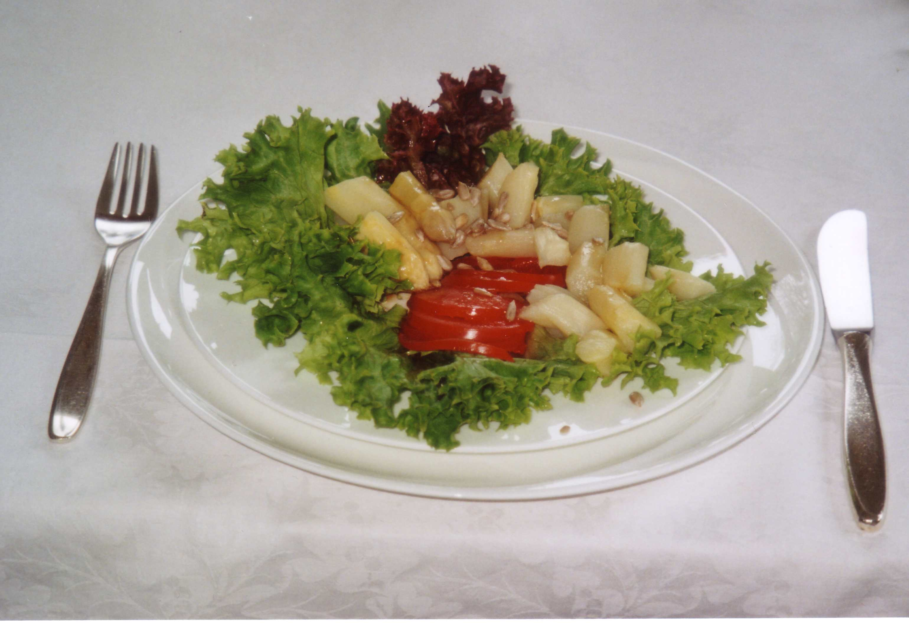 A mixed salad of lettuce, tomato, and asparagus.